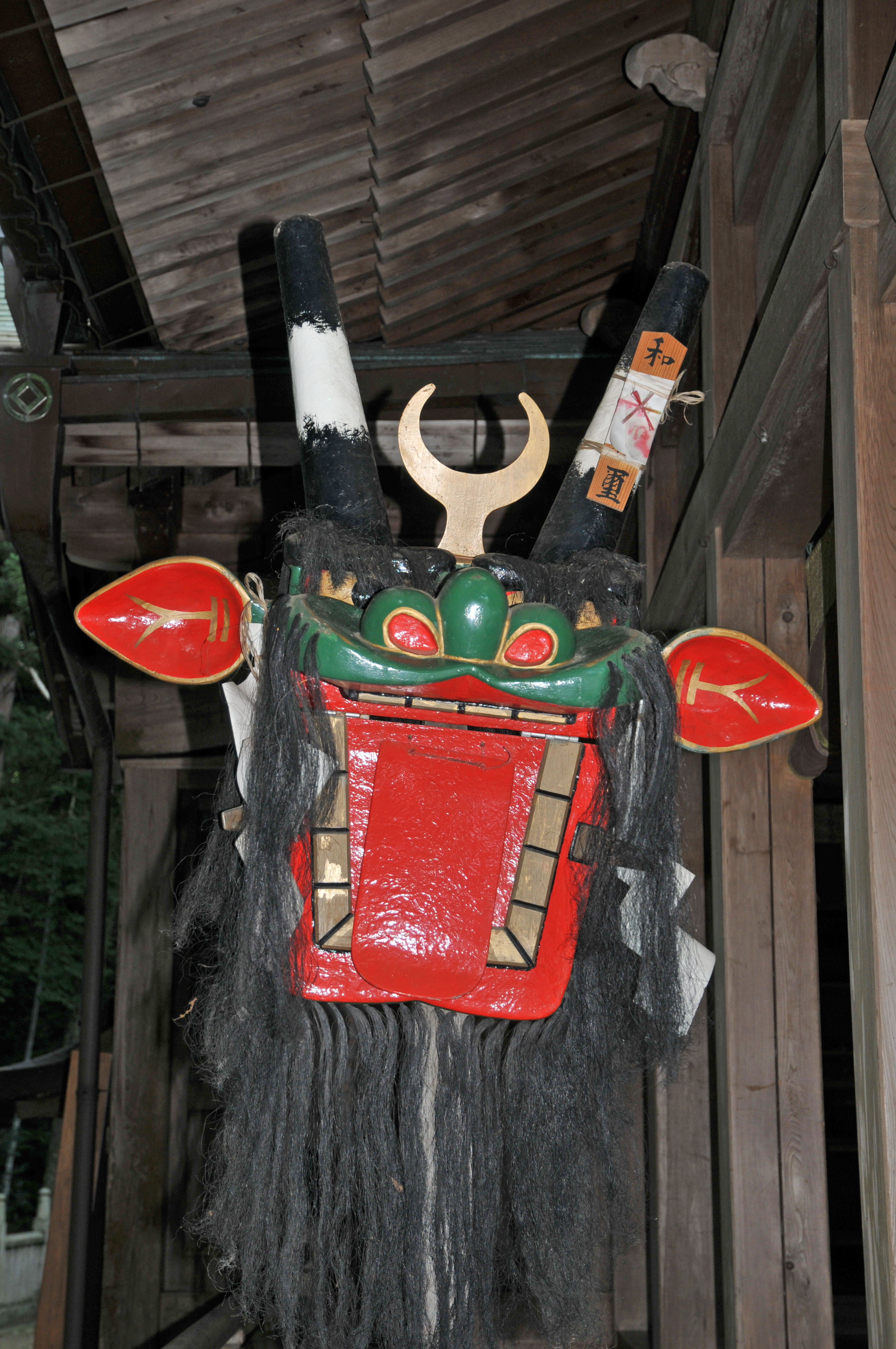 Ushioni head on the front shrine, Warei jinja